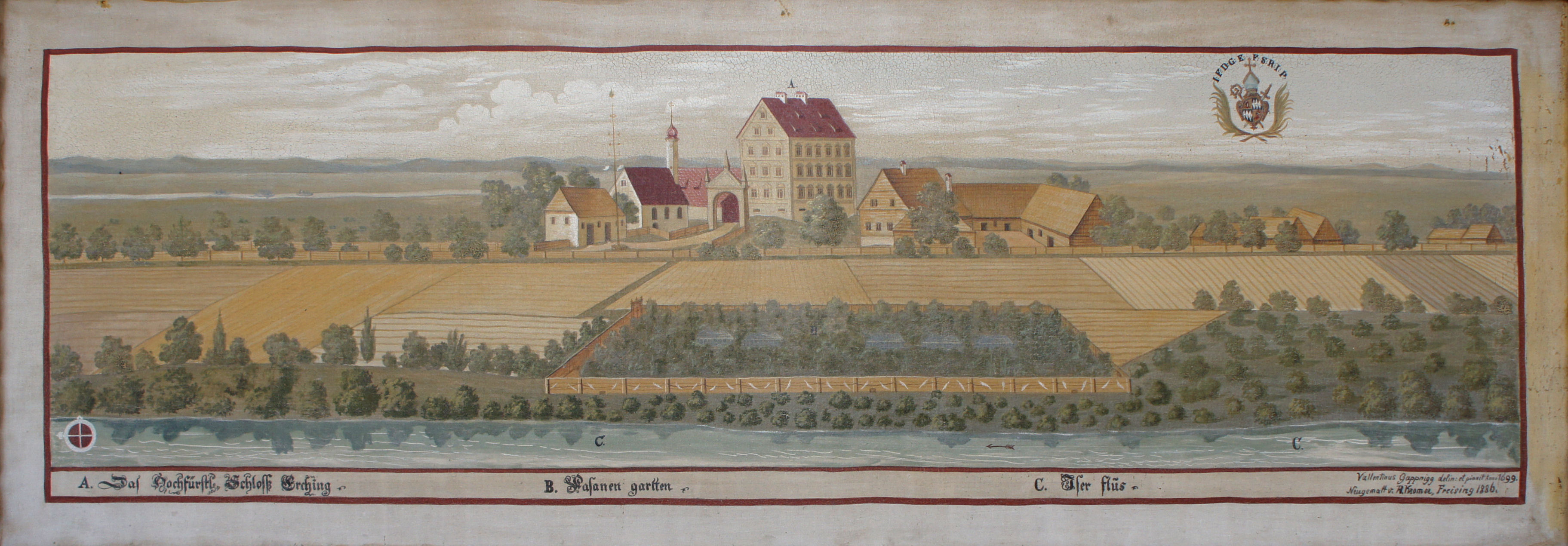 View of Schloss Erching near Freising, Bavaria. Part of a series of 32 paintings executed by Valentin Gappnigg between 1698 and 1702. Gappnigg had been commissioned by the prince-bishop of Freising, Johann Franz Eckher von Kapfing und Liechteneck, to paint views of the various possessions of the prince-bishopric. While the core territories of Freising were located in Bavaria, it also included several far-flung enclaves located inside Tyrol, Styria, Carinthia, Lower Austria and Carniola (now Slovenia).